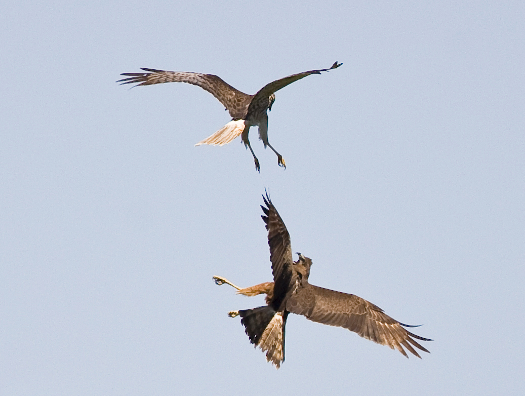 Two Swamp Harriers (Circus approximans) in a territorial dispute over Edithvale Wetlands, Melbourne, Victoria, Australia. Lat: 38 deg 2'5.06"S, Long: 145 deg 7'22.88"E.